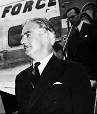 Mr. Anthony Eden on arrival at Rockcliffe Airport, Ottawa